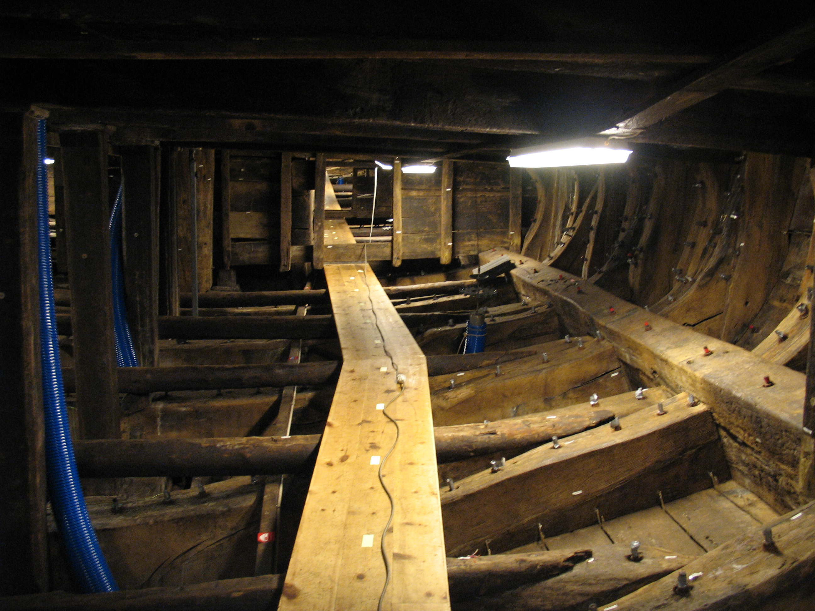 The hold of the warship Vasa, displayed in the Vasa Museum in Stockholm, Sweden. Picture taken from inside the ship looking forward.